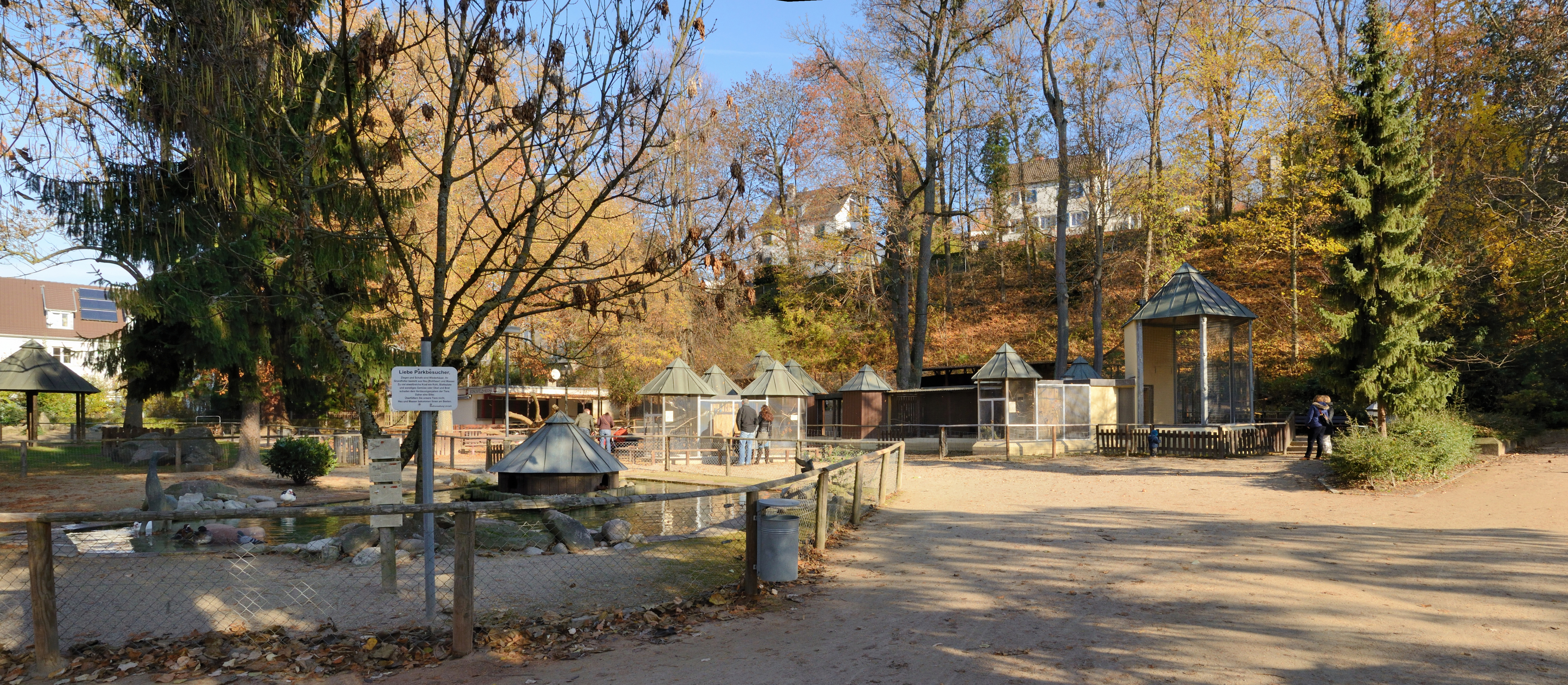 Lörrach: Park "Rosenfels"